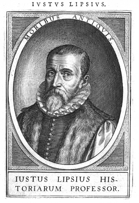 Justus Lipsius (1547 — 1606) was a Flemish philologist and humanist.